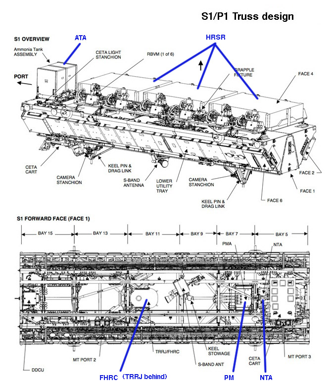 EATCS components on the S1/P1 Trusses